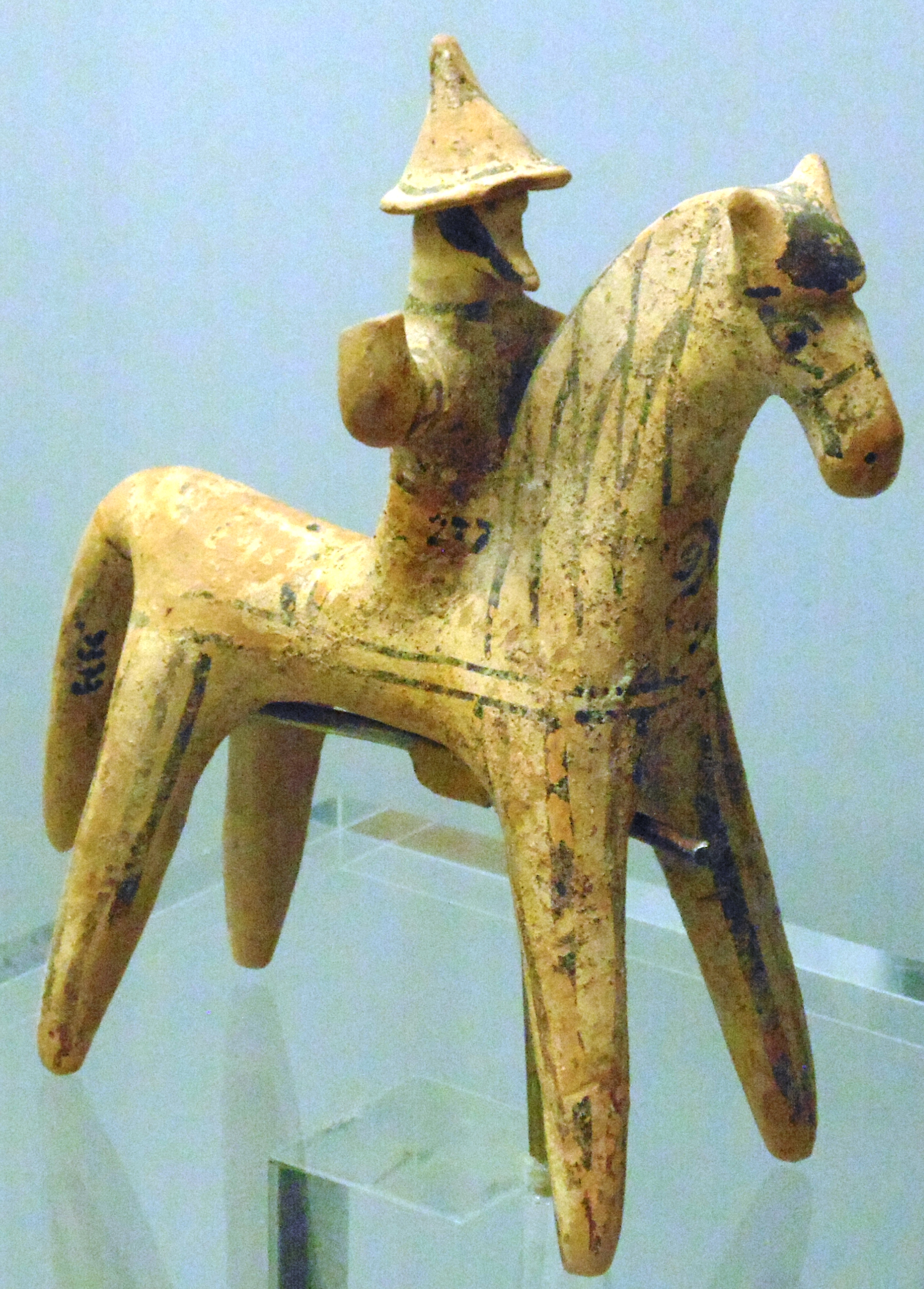 Collection of Archaeological Museum of Eretria